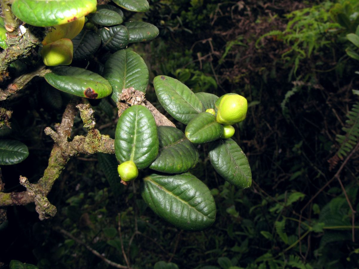 Metrosideros rugosa tree. Wiliwilinui Trail, Oahu, Hawaii. Photo by Karl Magnacca.